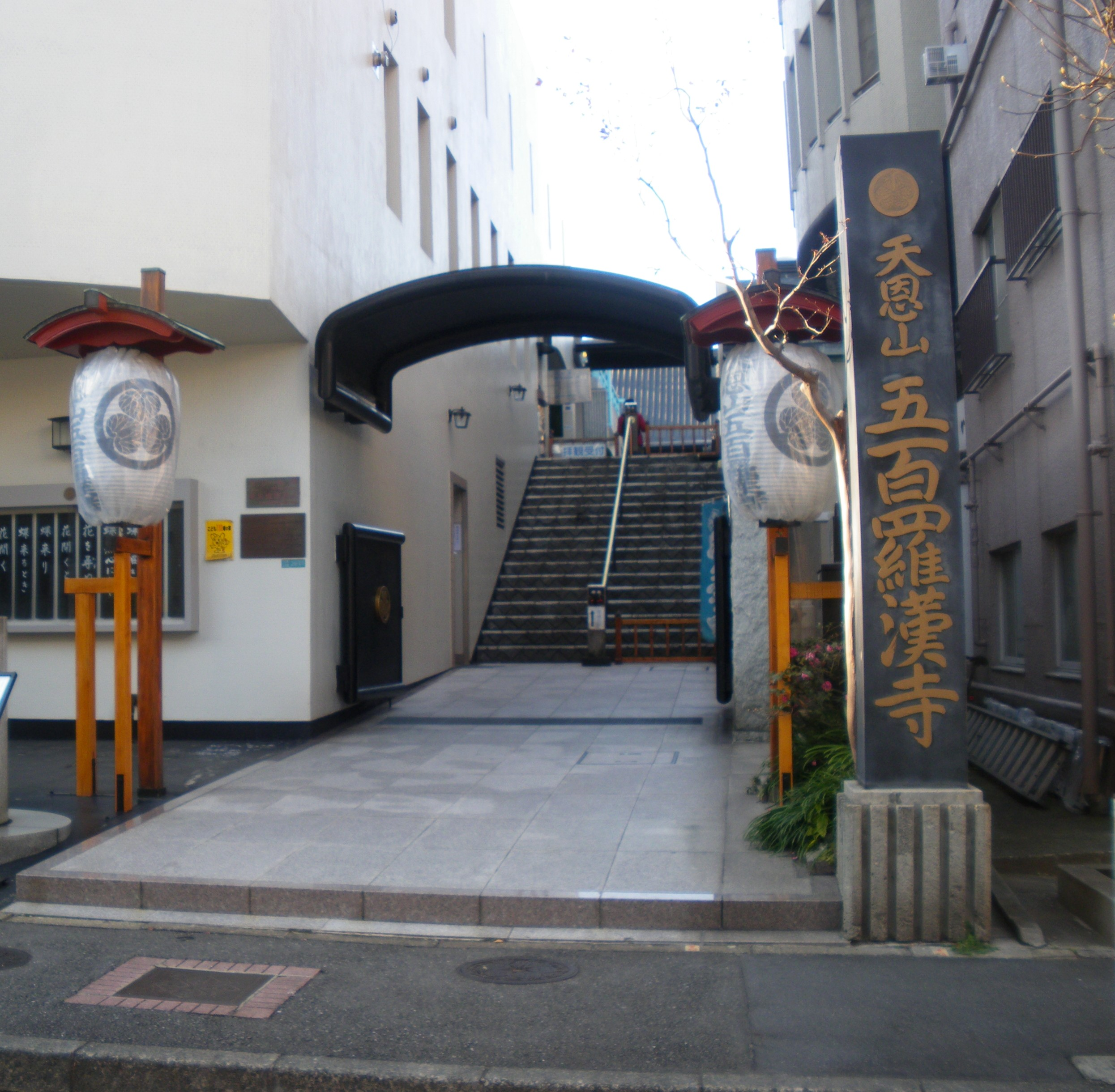 A photo of Gohyakurakan-ji(temple),Shimomeguro Meguro-ku,Tokyo,Japan.